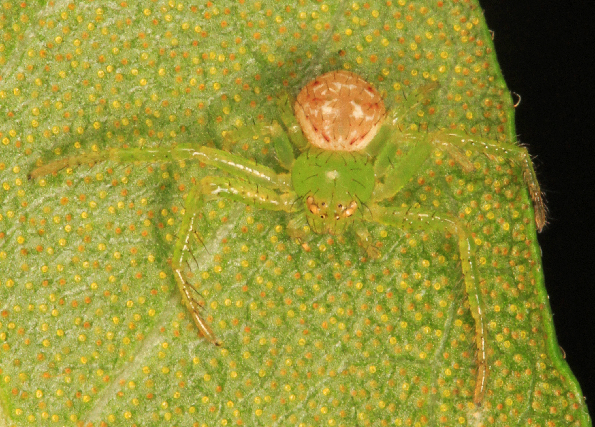 Crab Spider - Synema viridans, Everglades National Park, Homestead, Florida. Its camouflage works well.